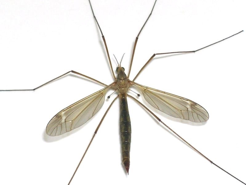 A cranefly (Tipulidae) with halteres behind the wings clearly visible. Originally from the English Wikipedia.